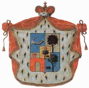 Gagarin Coat of Arms